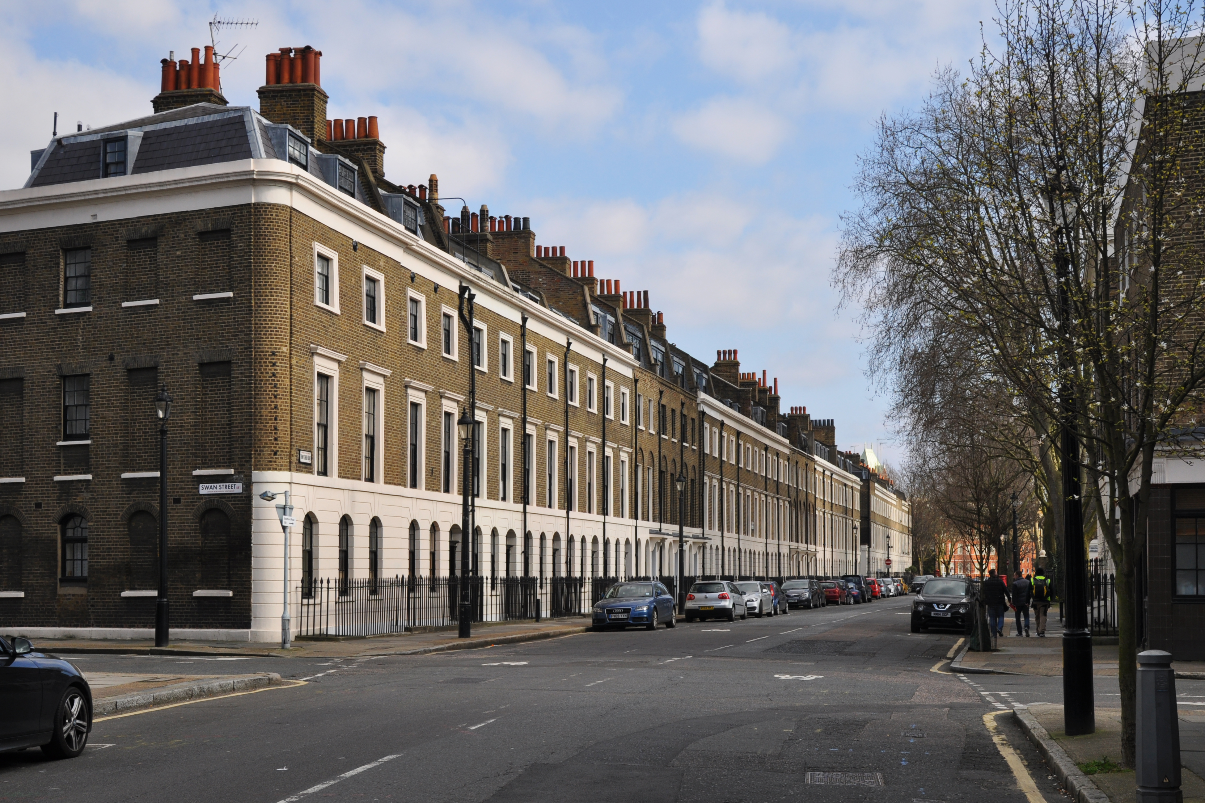 Regency terraces of Trinity Street, between Elephant and Castle and Borough in south London Numbers 45-68 And Attached Railings Wikidata has entry Q26665754 with data related to this item. Numbers 25-47 And Attached Railings Wikidata has entry Q26665759 with data related to this item.